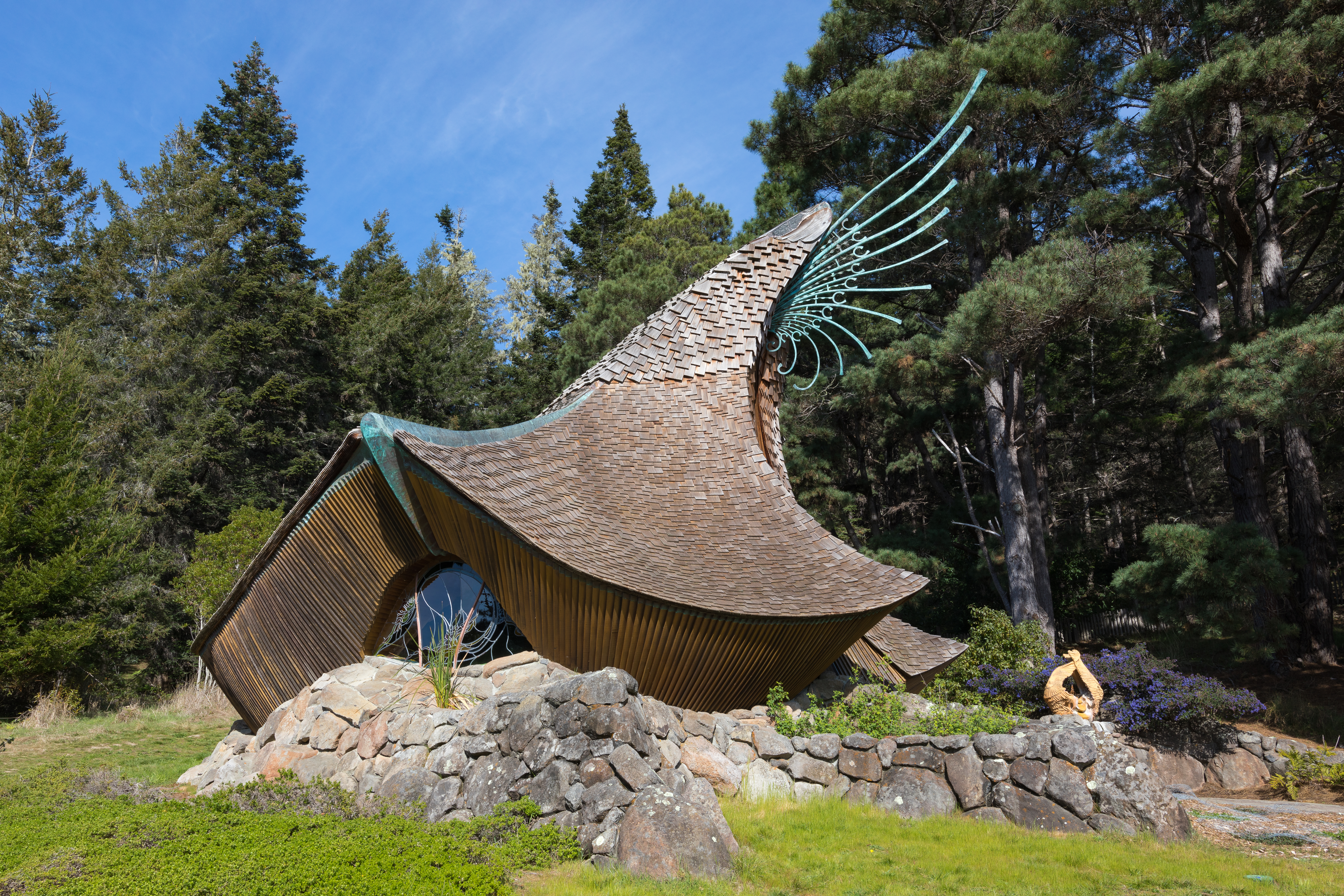 The Sea Ranch Chapel in Sea Ranch, Sonoma County, designed by James Hubbell, in March 2020